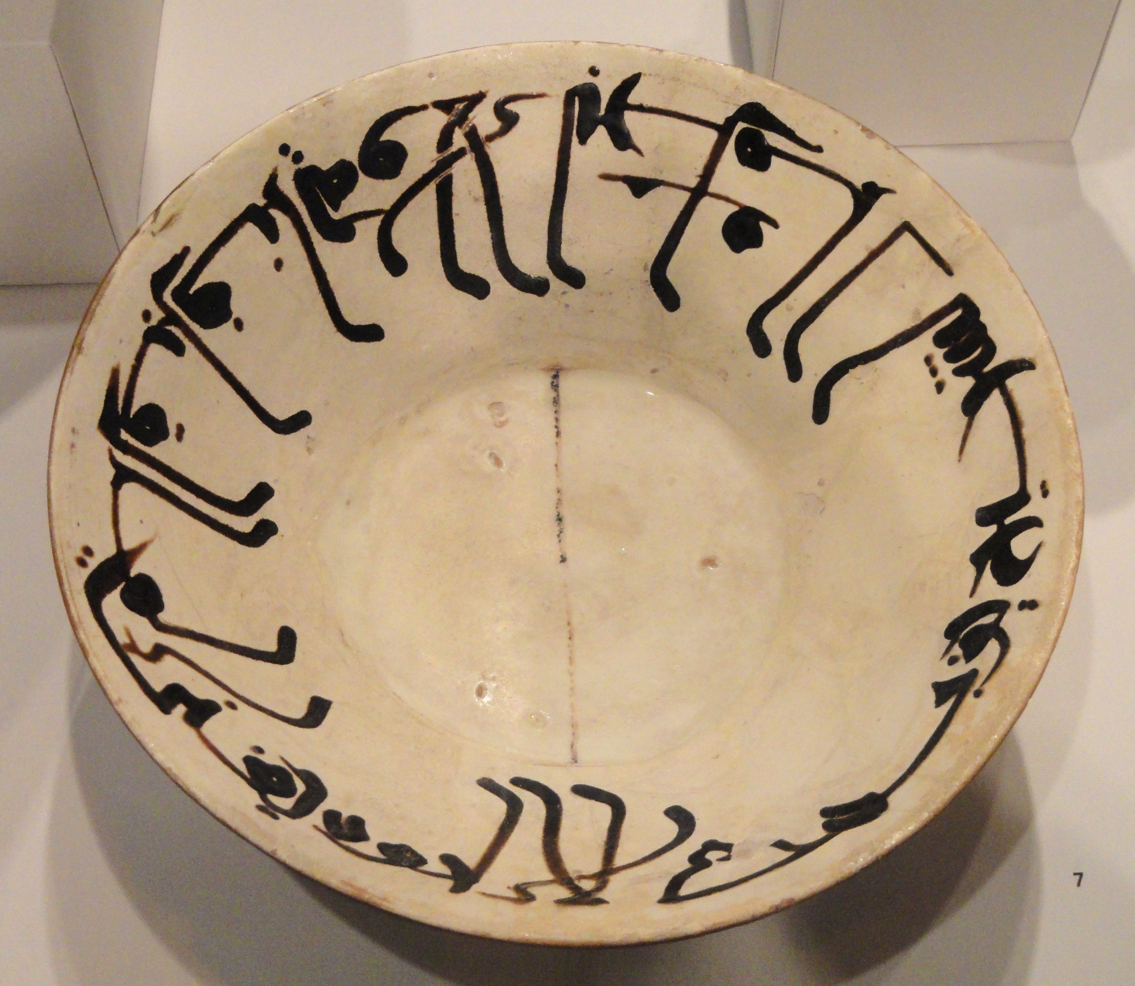 Exhibit in the Sackler Museum, Harvard University, Cambridge, Massachusetts, USA. The museum permitted photography of this artwork without restriction. This artwork is in the public domain because the artist died more than 70 years ago.